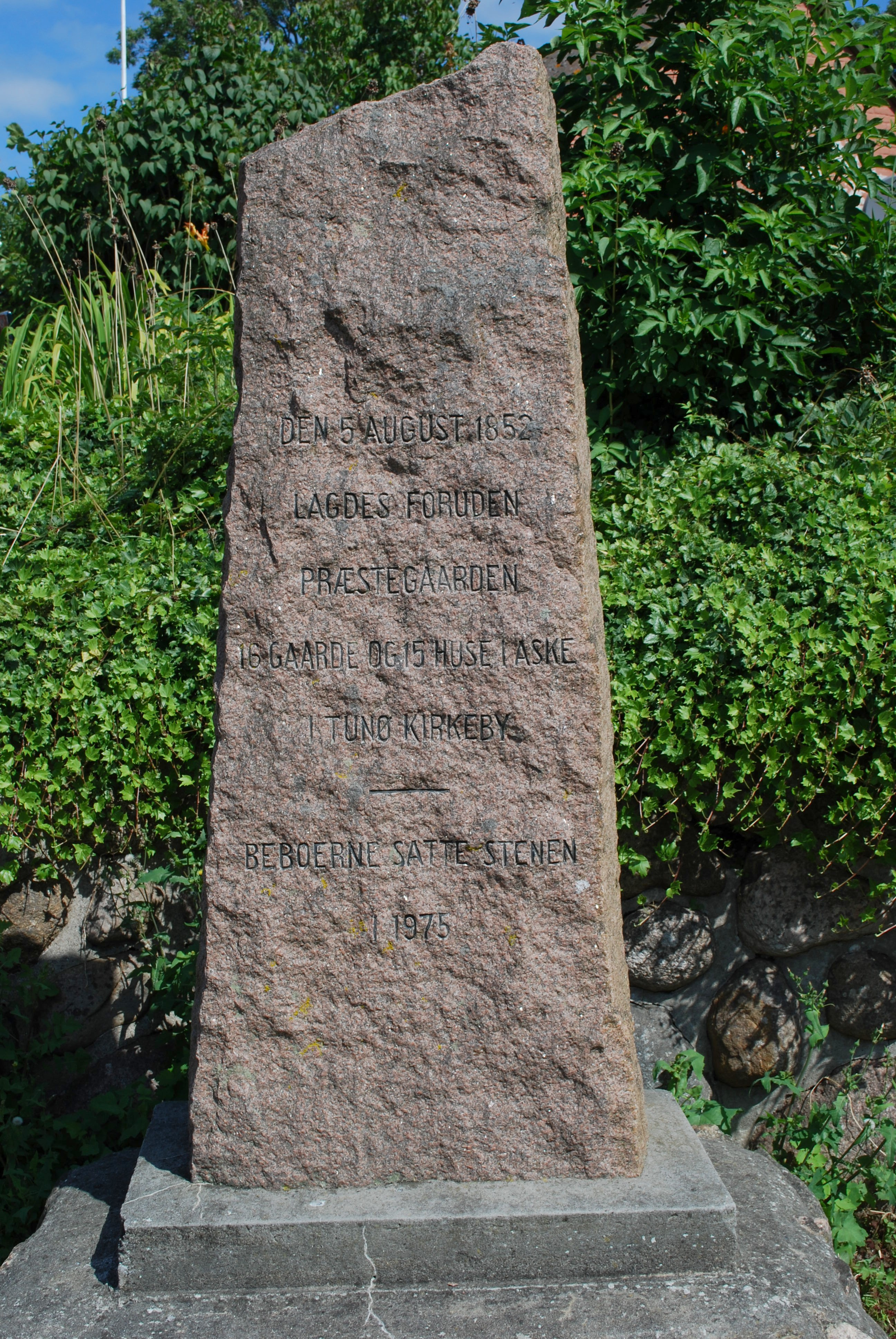 Memorial stone from 1975 for a big fire 1852 in Tunø By - Tunø - Denmark